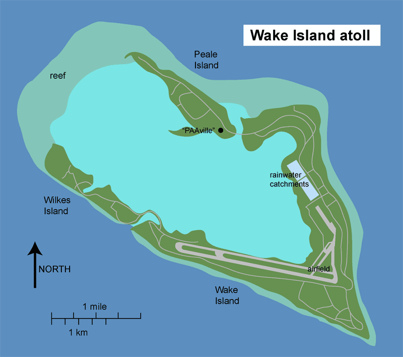 Map of Wake Island originally found on WikiTravel. The image was created by Todd VerBeek.